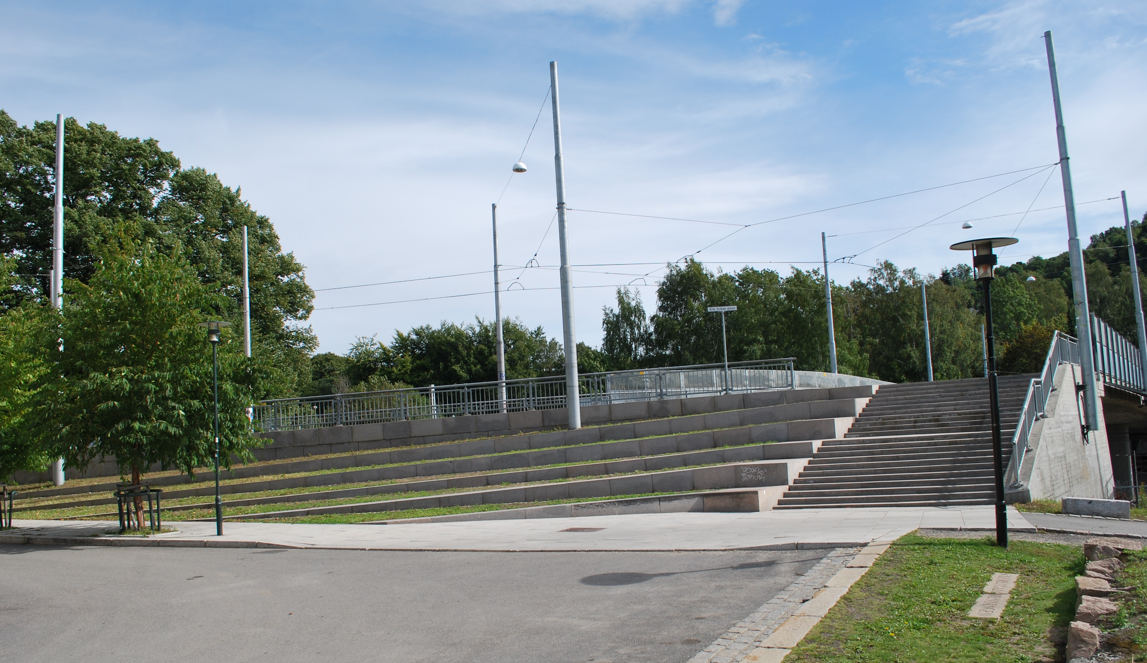 Erik Schias plass (square), Gamlebyen neighbourhood, Oslo. Geitabru (bridge) in the background